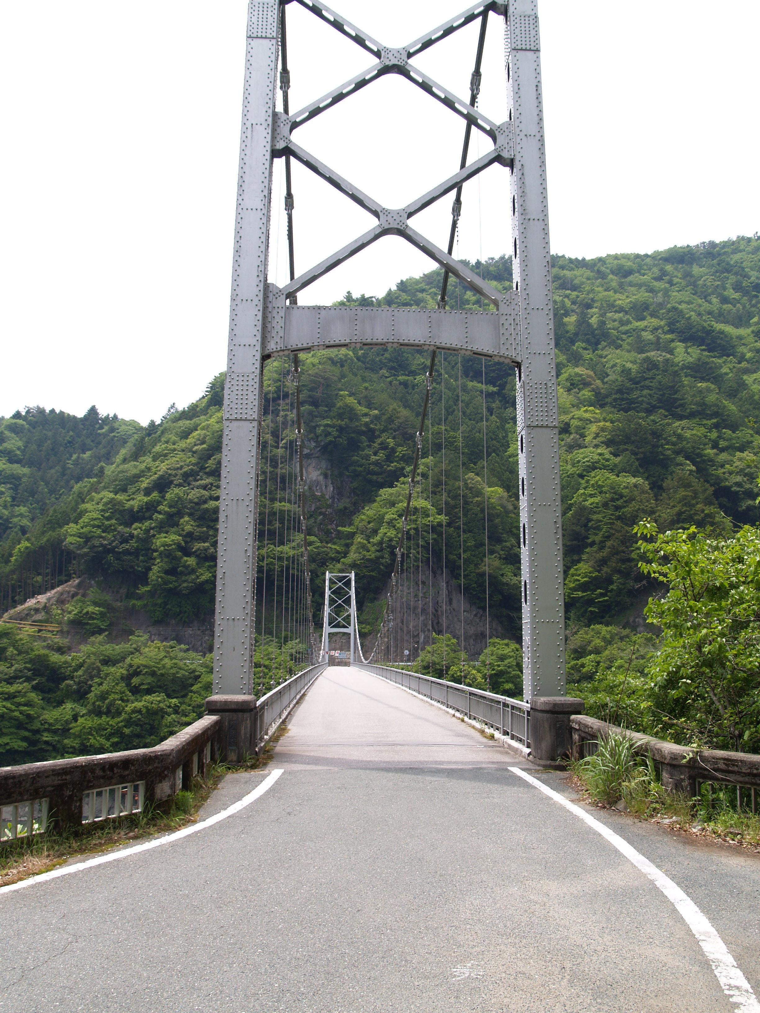 Takasu Bridge over the Tenryu River, on the Aichi Prefectural Road Route 426 and Shizuoka Prefectural Road Route 287, seen from the Shizuoka side